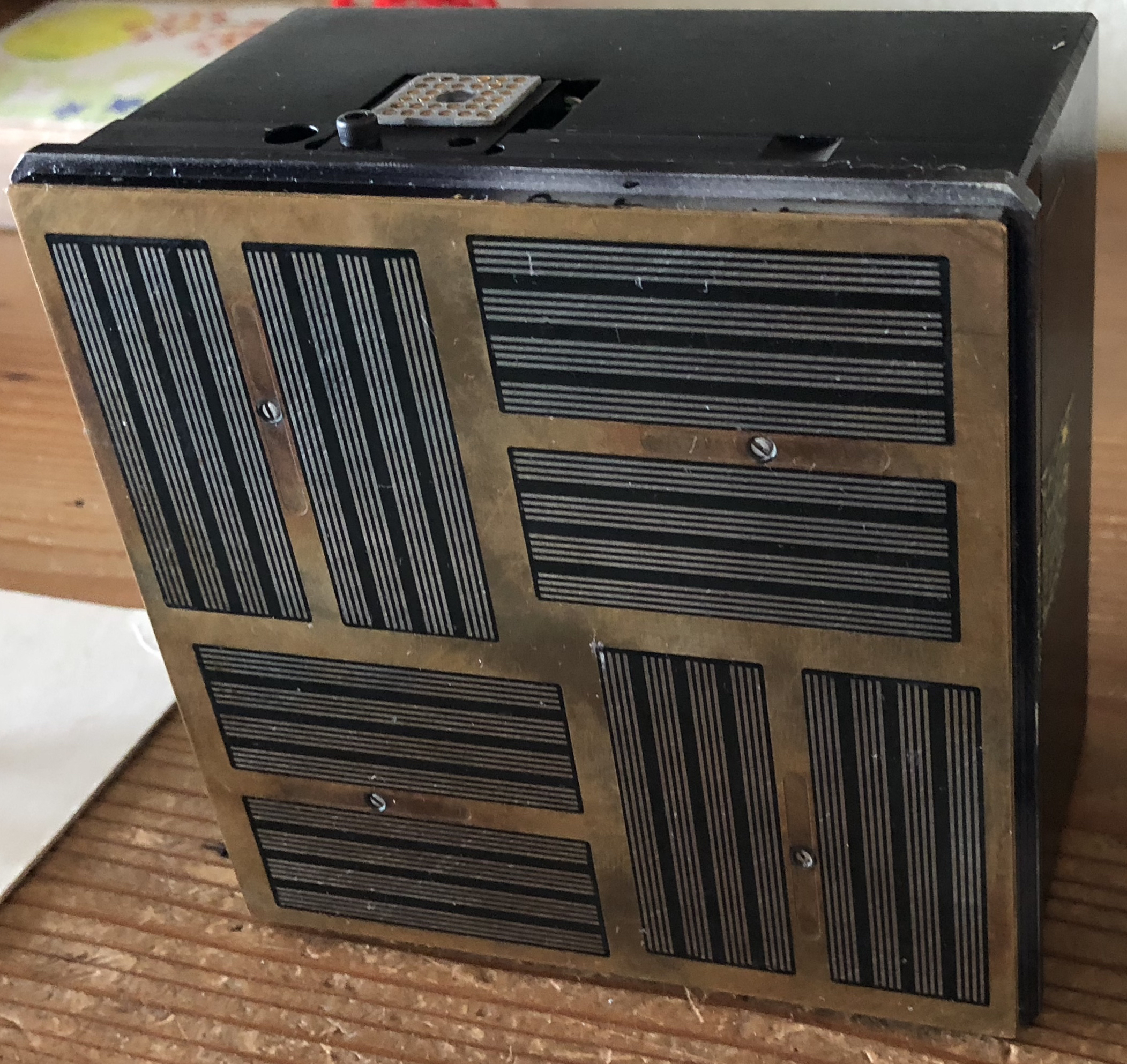 Linear motor and actuator mount used in Vic Scheinman's Robotworld, developed at Automatix Inc. in the 1980s and later marketed by Yaskowa Inc.